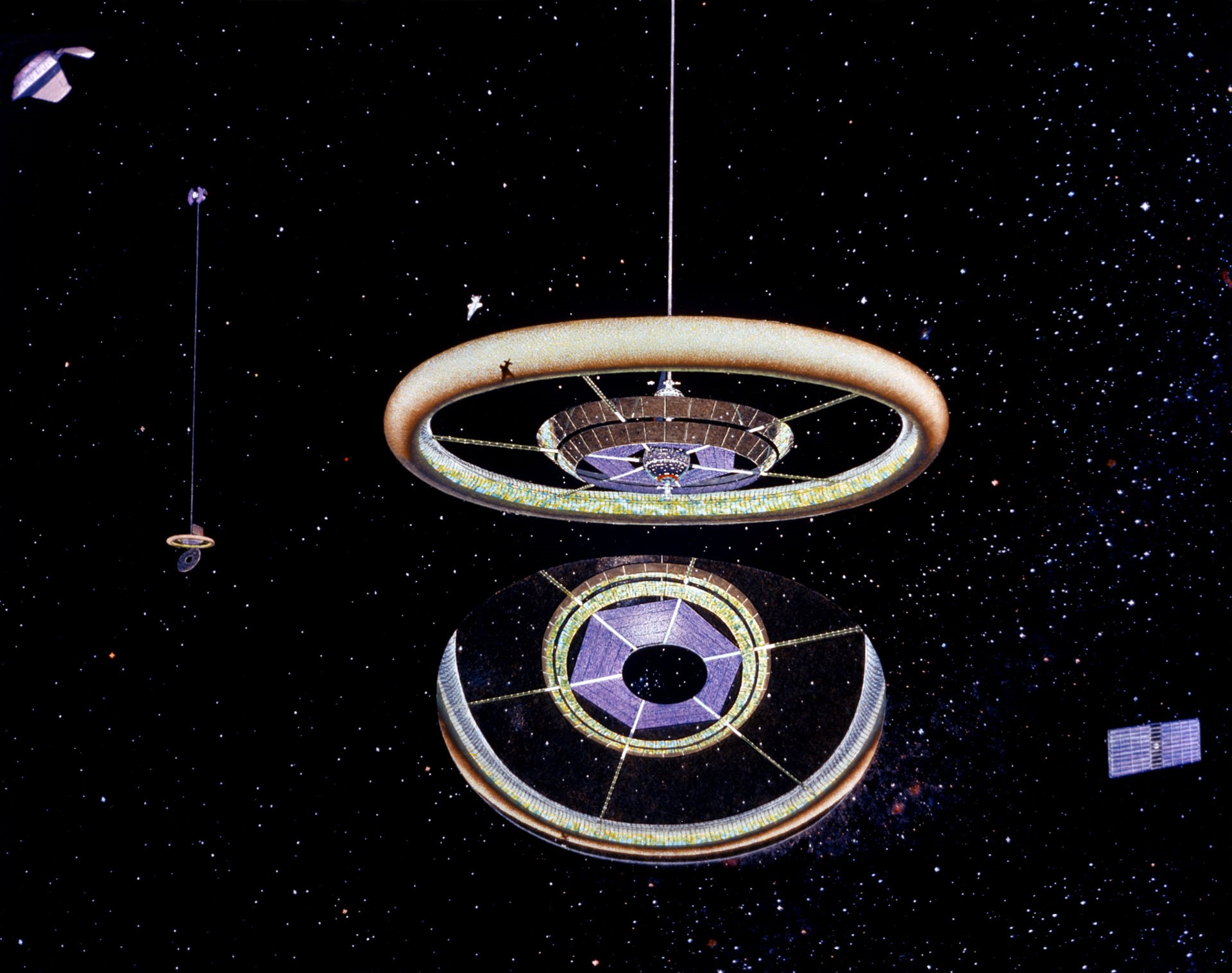 Artist's impression of an external view of the Stanford torus space station design.